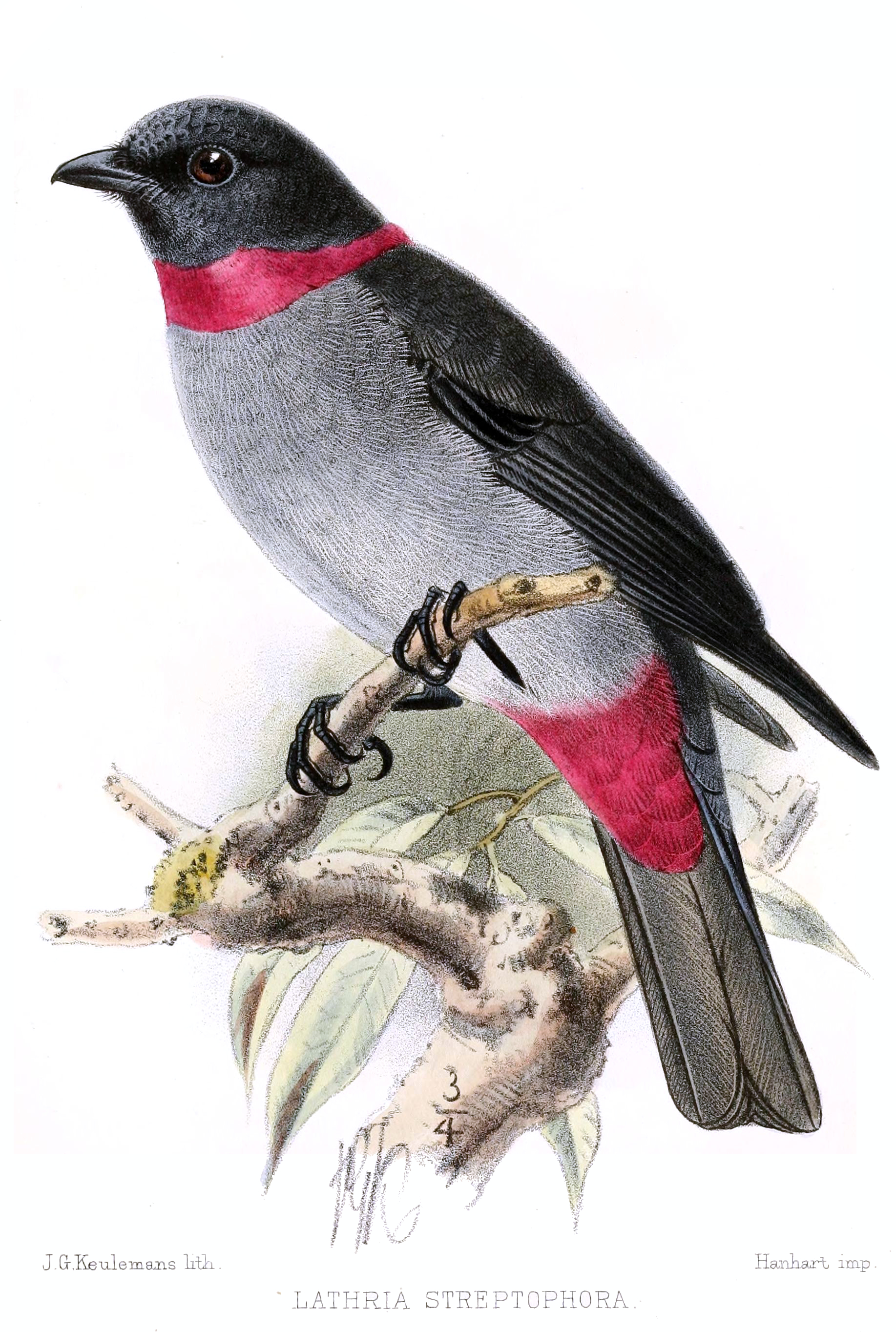 Lathria streptophora from The Ibis.